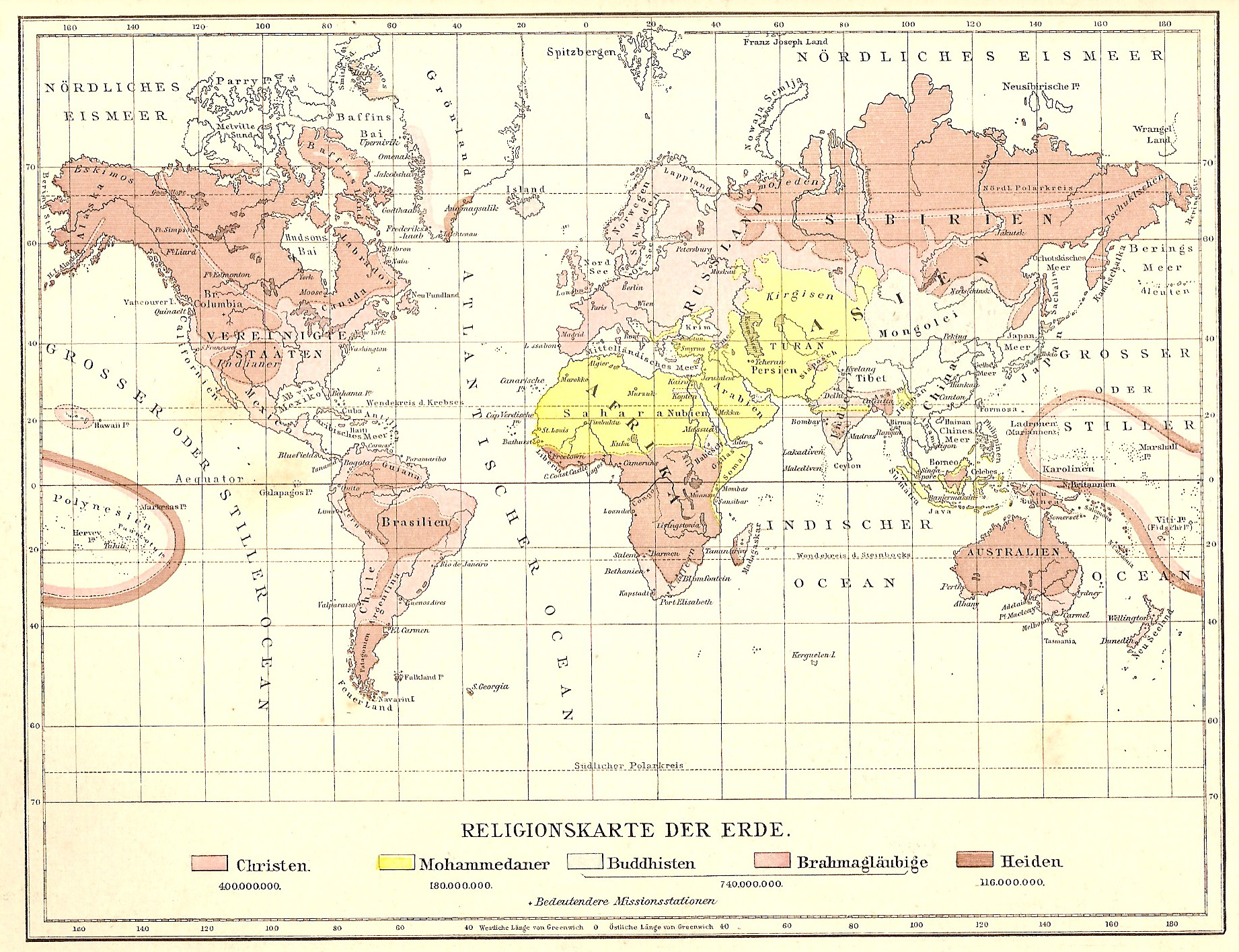 Religions of the World, Andrees Allgemeiner Handatlas, 1st Edition, Leipzig (Germany) 1881, Page 9, Map 2.